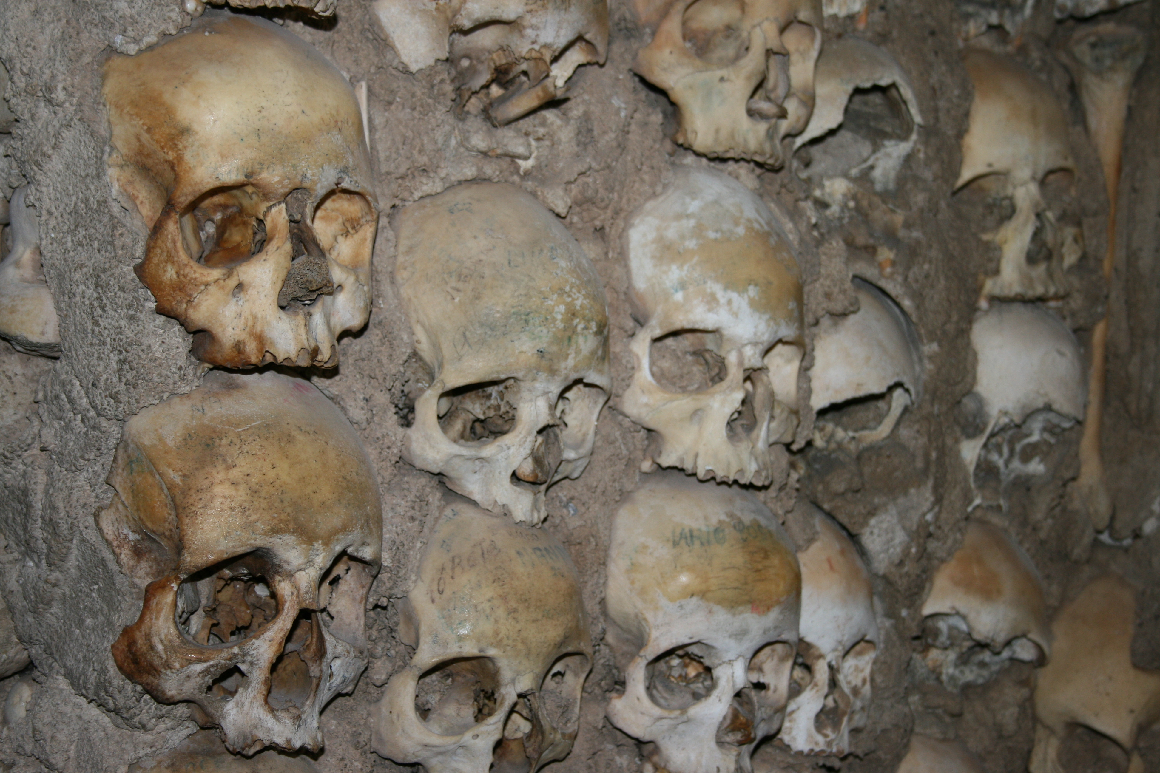 charnel house in Évora